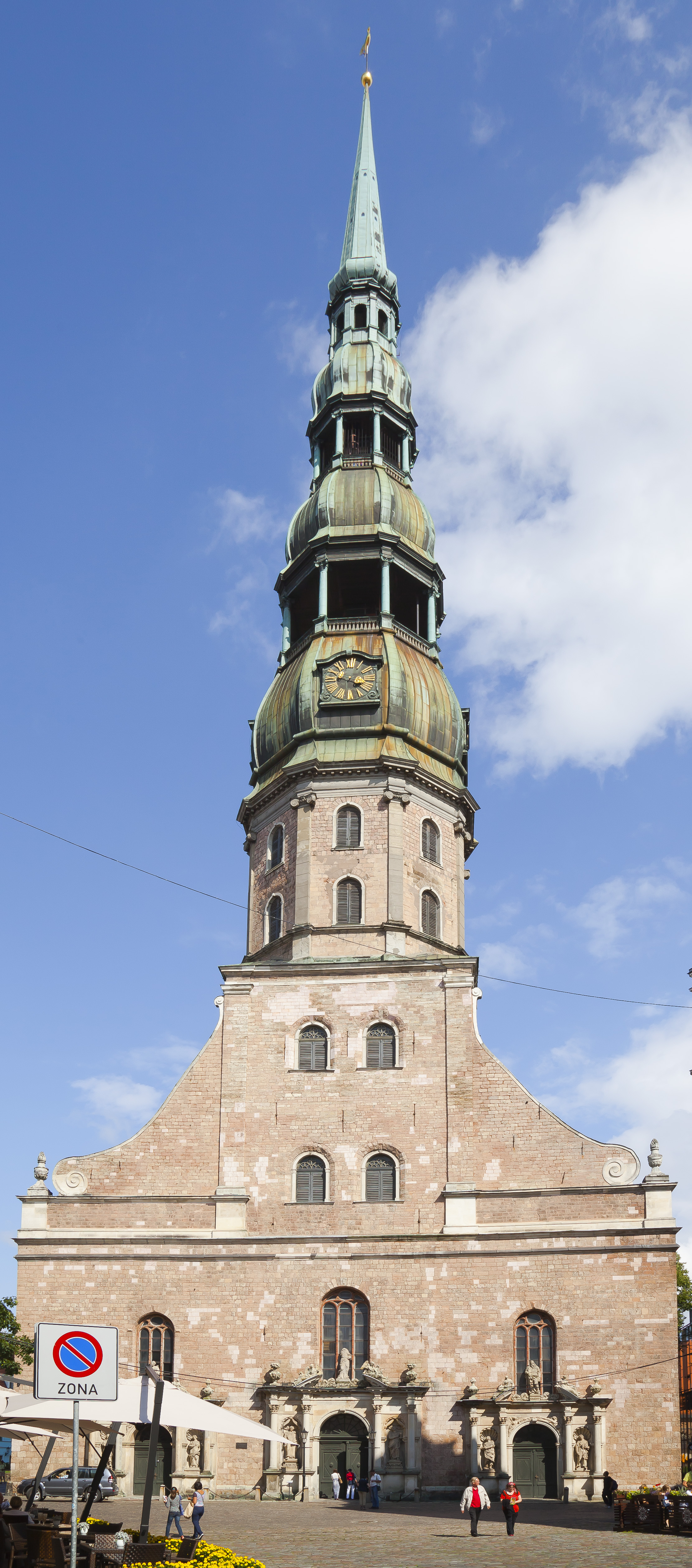 Church of Saint Peter, Riga, Latvia